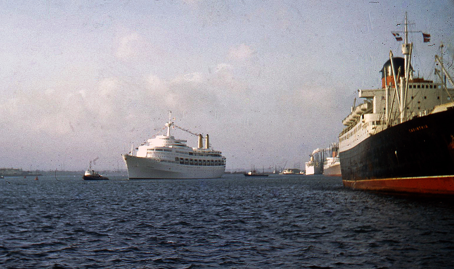 'Canberra' departing Southampton, England, 1967